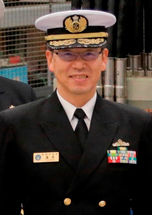 Vice Adm. Hideki Yuasa, President of the Japan Maritime Self-Defense Force (JMSDF) Maritime Command and Staff College